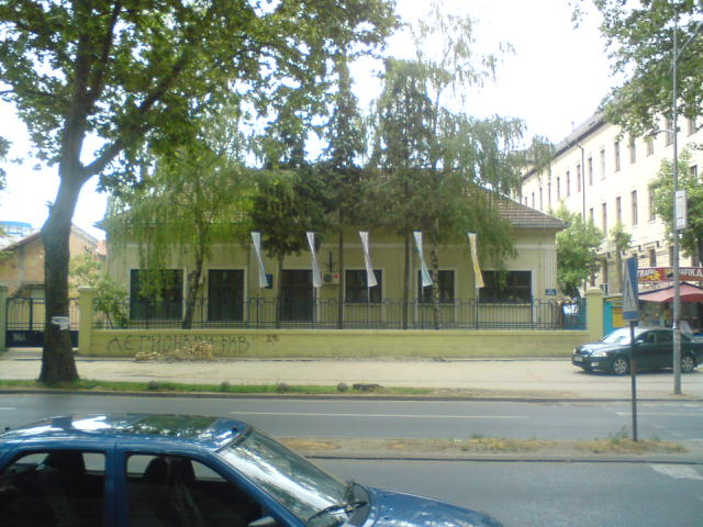 Higher technical school in Novi Sad, Serbia